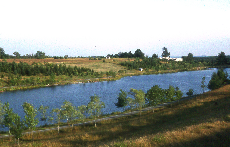 lake nityananda, fallsburg, ny, photo by Sardaka 03:06, 13 July 2007 (UTC)